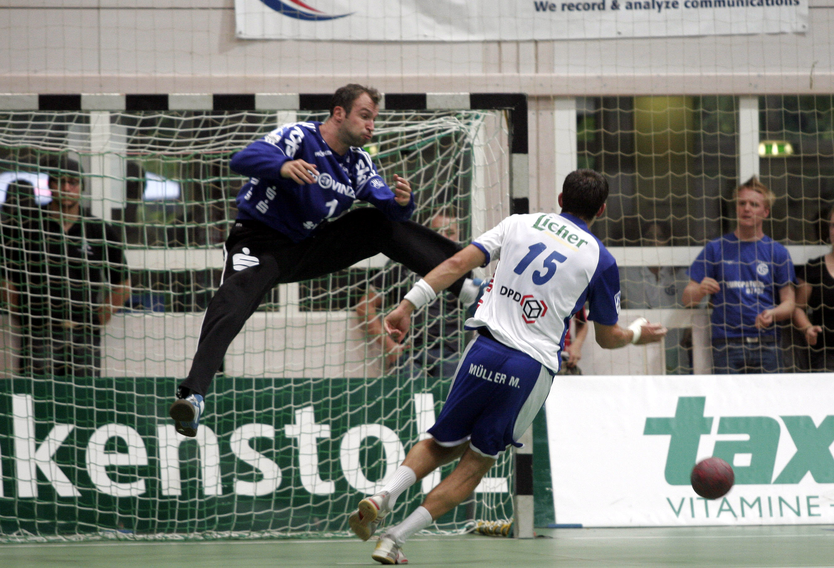 Thierry Omeyer (goalkeeper) vers. Michael Müller (shooter), on September 1st, 2007 in Aschaffenburg (Germany), during the game TV Großwallstadt - THW Kiel. Series of 3 Images, this is #3